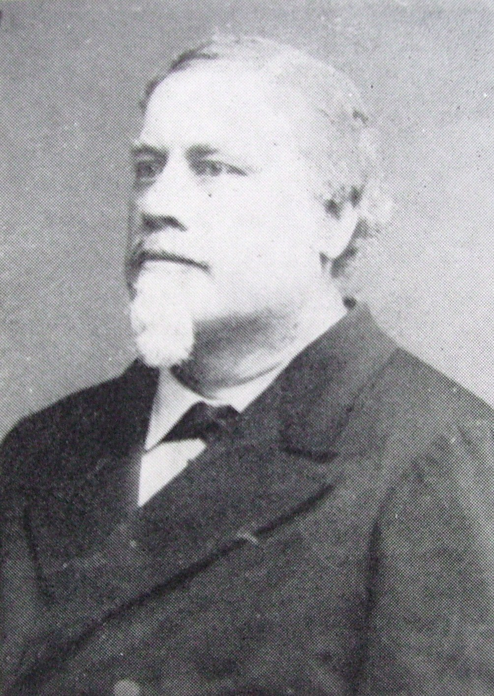 Picture of Julius Mankell, Swedish liberal policitian